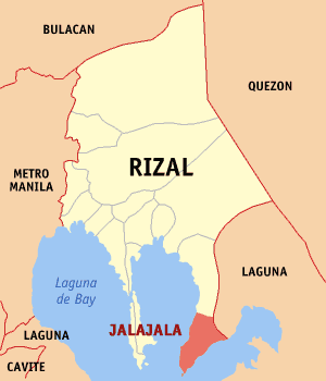 Map of Rizal showing the location of Jalajala